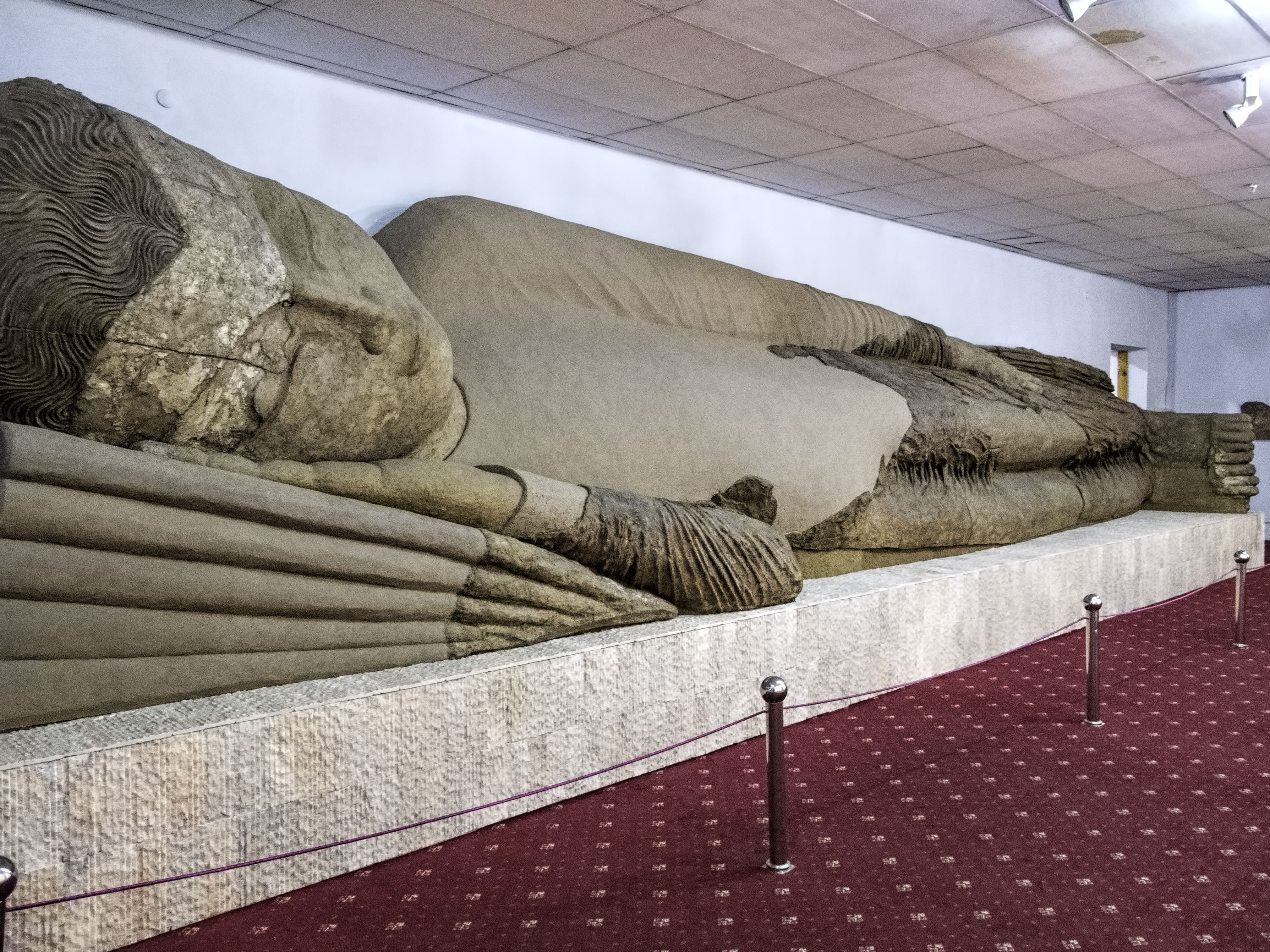 At Ajina Tepe south of Dushanbe, excavation by Soviet archaeologists in the 1960’s of a Buddhist monastery dating back to the 7th and 8th Centuries unearthed a reclining Buddha statue 12 meters (39 feet) long. National Museum of Antiquities of Tajikistan.